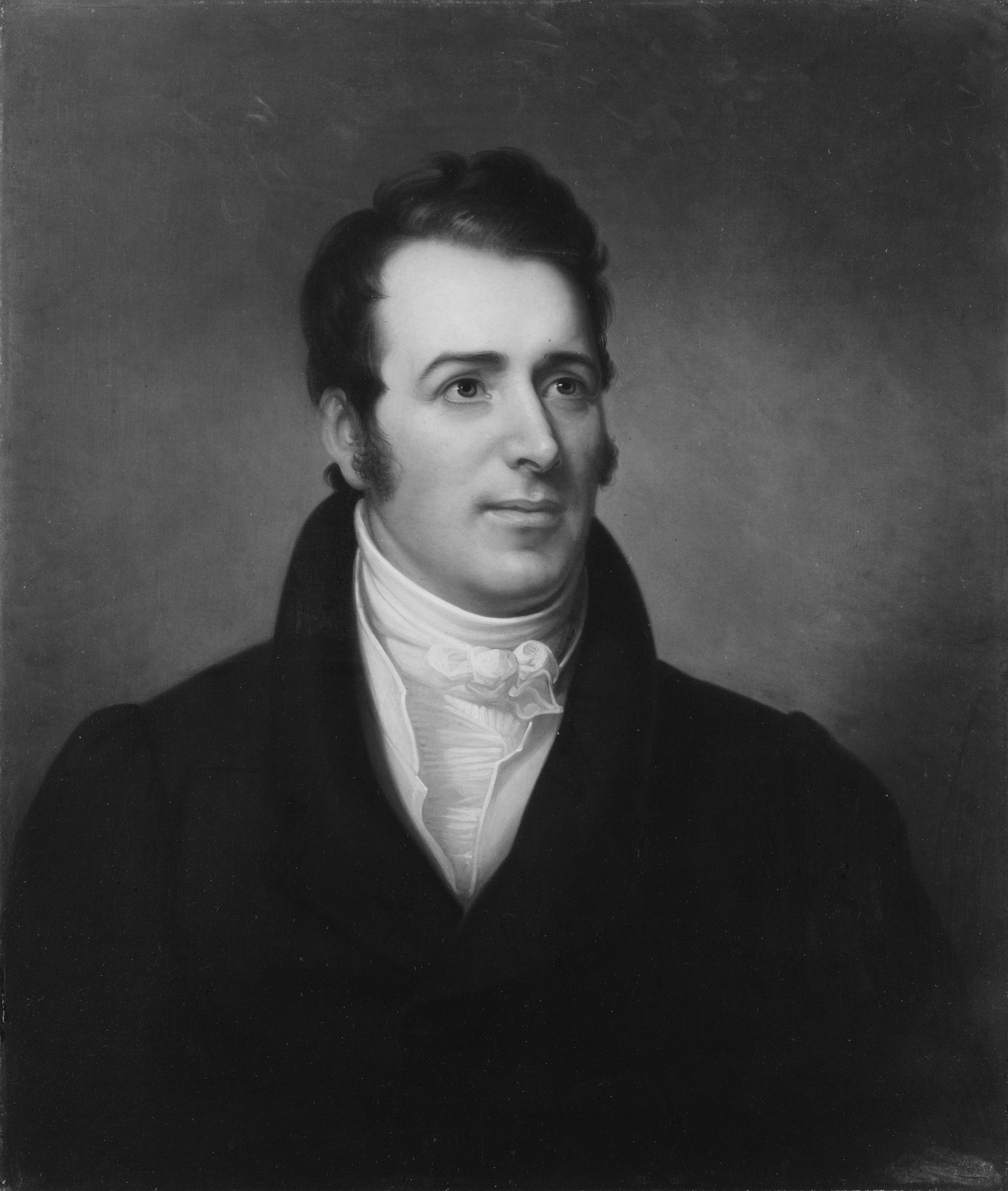 John Johnston Artist: Rembrandt Peale (American, Bucks County, Pennsylvania 1778–1860 Philadelphia, Pennsylvania) Date: 1826–29 Medium: Oil on canvas Dimensions: 30 1/4 x 26 in. (76.8 x 66 cm) Classification: Paintings Credit Line: Bequest of Noel Johnston King, 1979 The accountant John Johnston (1781-1851) was born at Barnboard Mill, Galloway, Scotland, and came to New York in 1804. In 1817, he married Margaret Taylor Howard and their son, John Taylor Johnston, later became one of the founders of the Metropolitan Museum of Art.